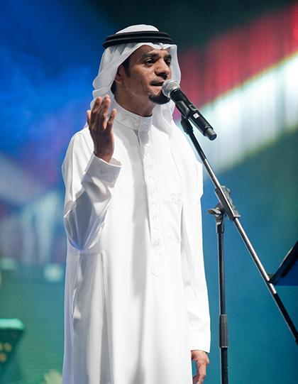 Rabeh Sager is a famous Arabic singer from Saudi Arabia.